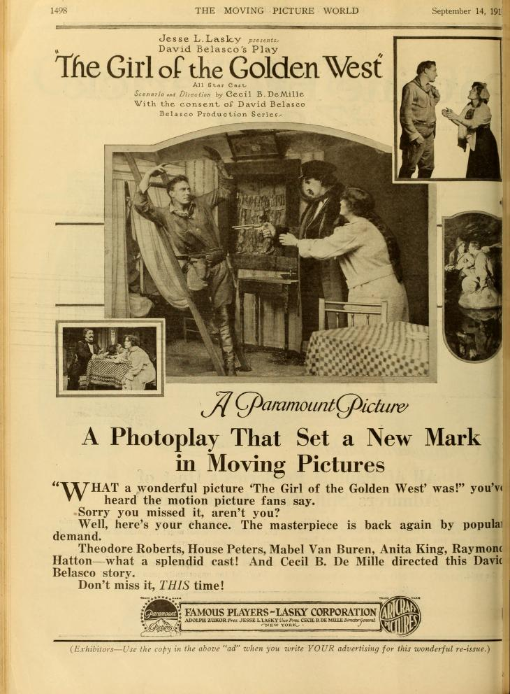 Advertisement for the 1915 silent film The Girl of the Golden West (with Theodore Roberts) in The Moving Picture World.